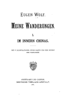 Meine Wanderungen: Im Innern Chinas ("My travells: Inside China") by Eugen Wolf.